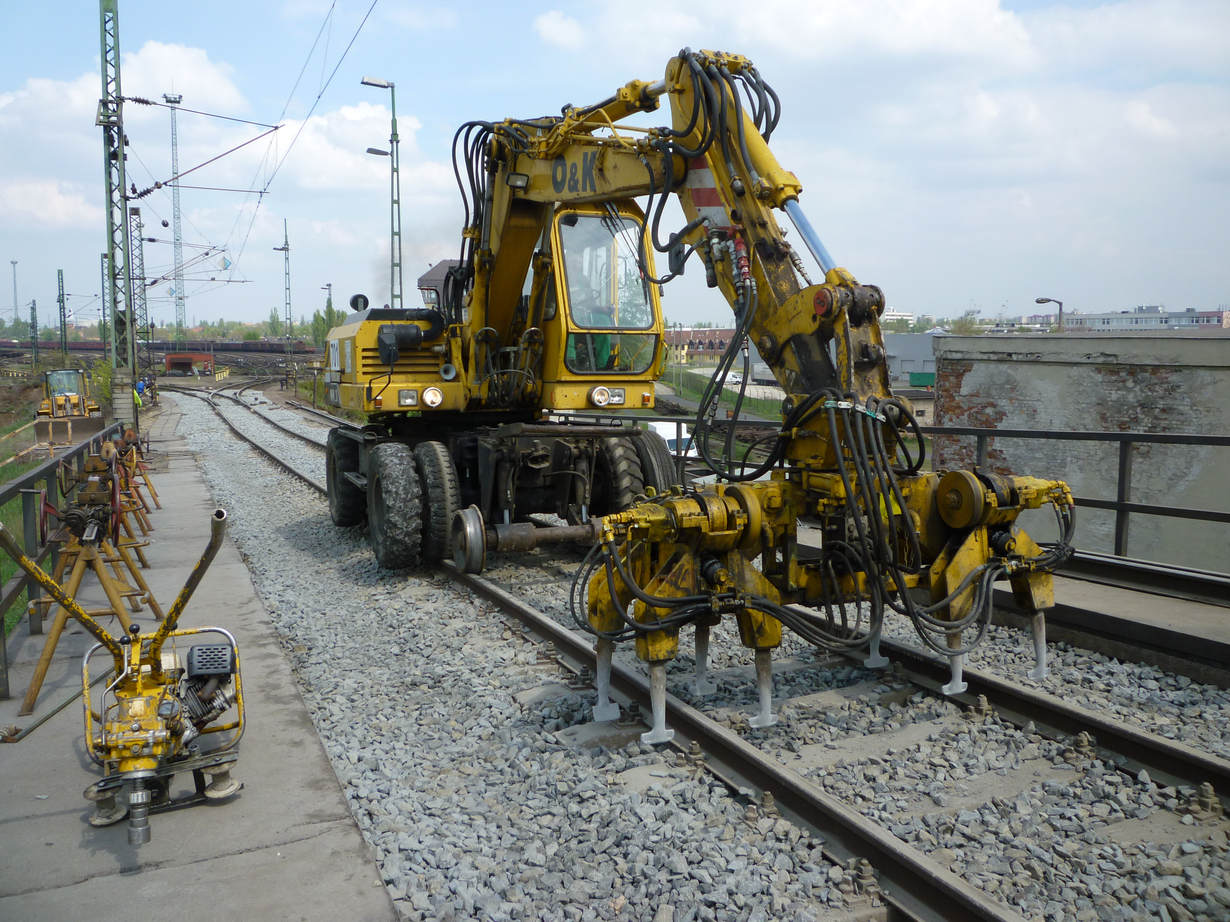 O&K road-rail excavator equipped with ballast tamper (Ferencváros hump yard, Hungary)